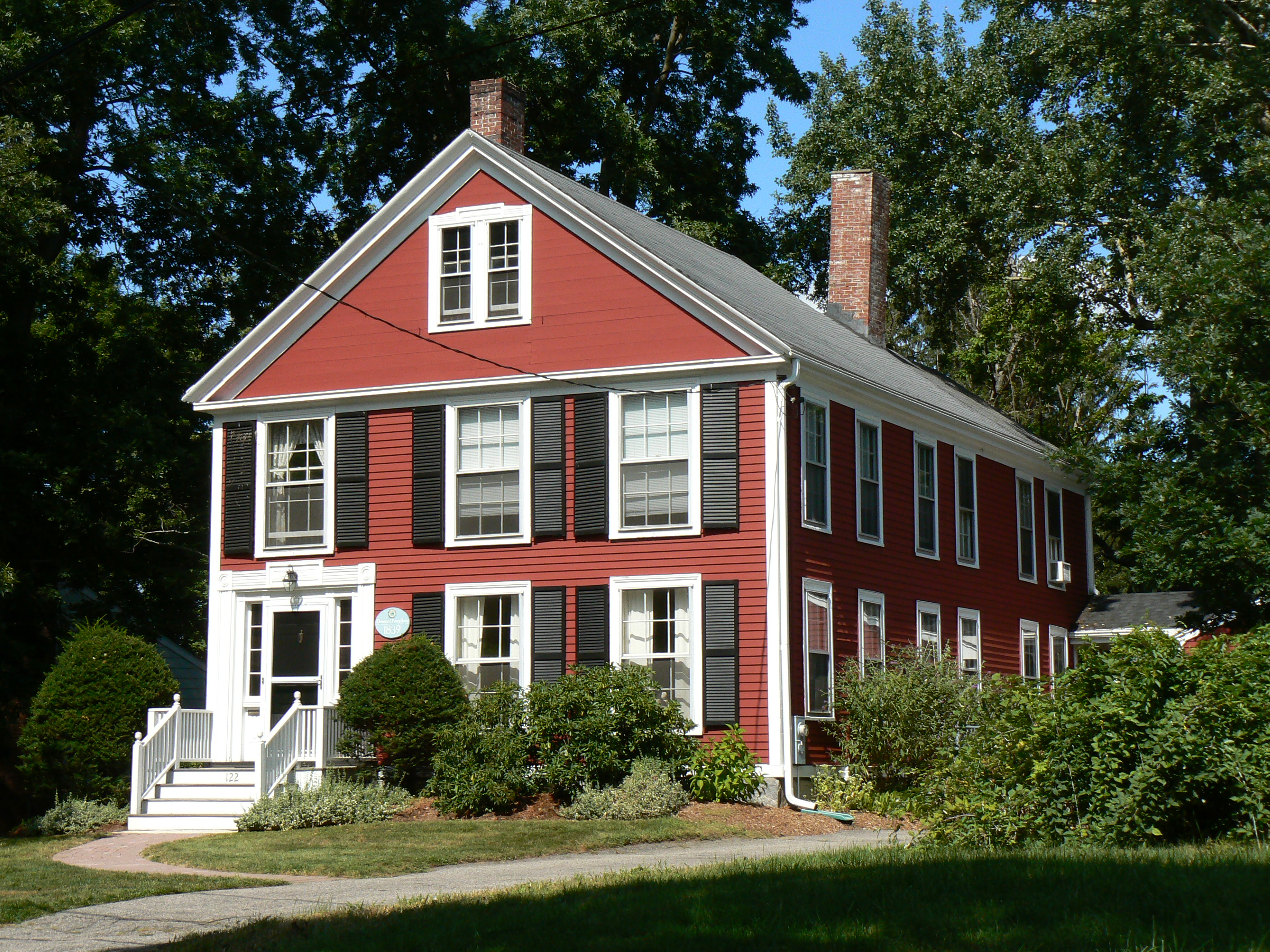 A photo of 122 Claremont Ave, part of the Pierce Farm Historic District in Arlington, Massachusetts.